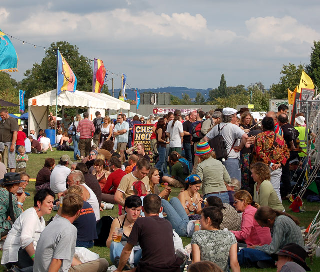 Towersey music festival (4) Every year, the village of Towersey hosts a folk music festival.